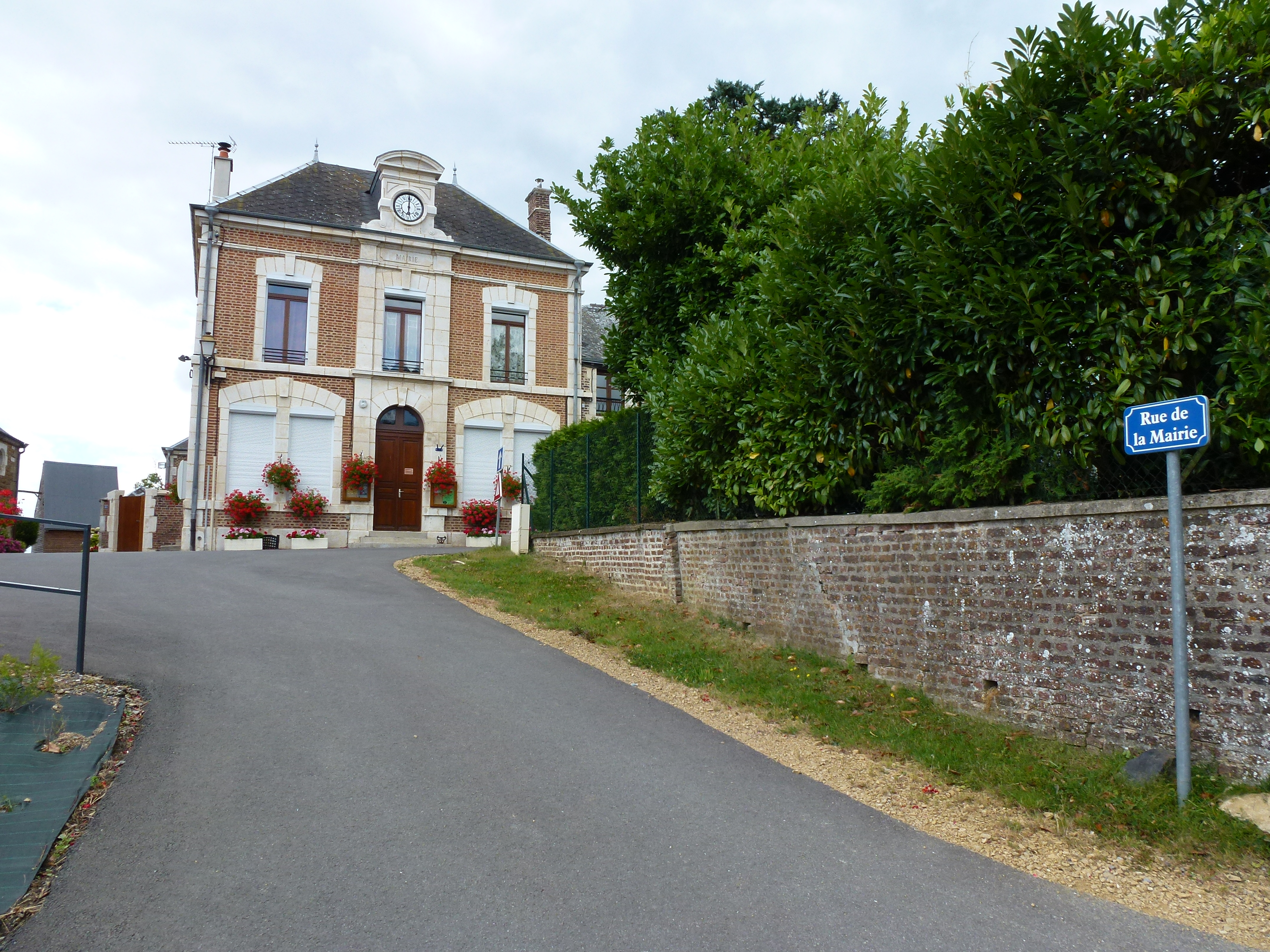 Villers-le-Tourneur (Ardennes) (rue de) la mairie